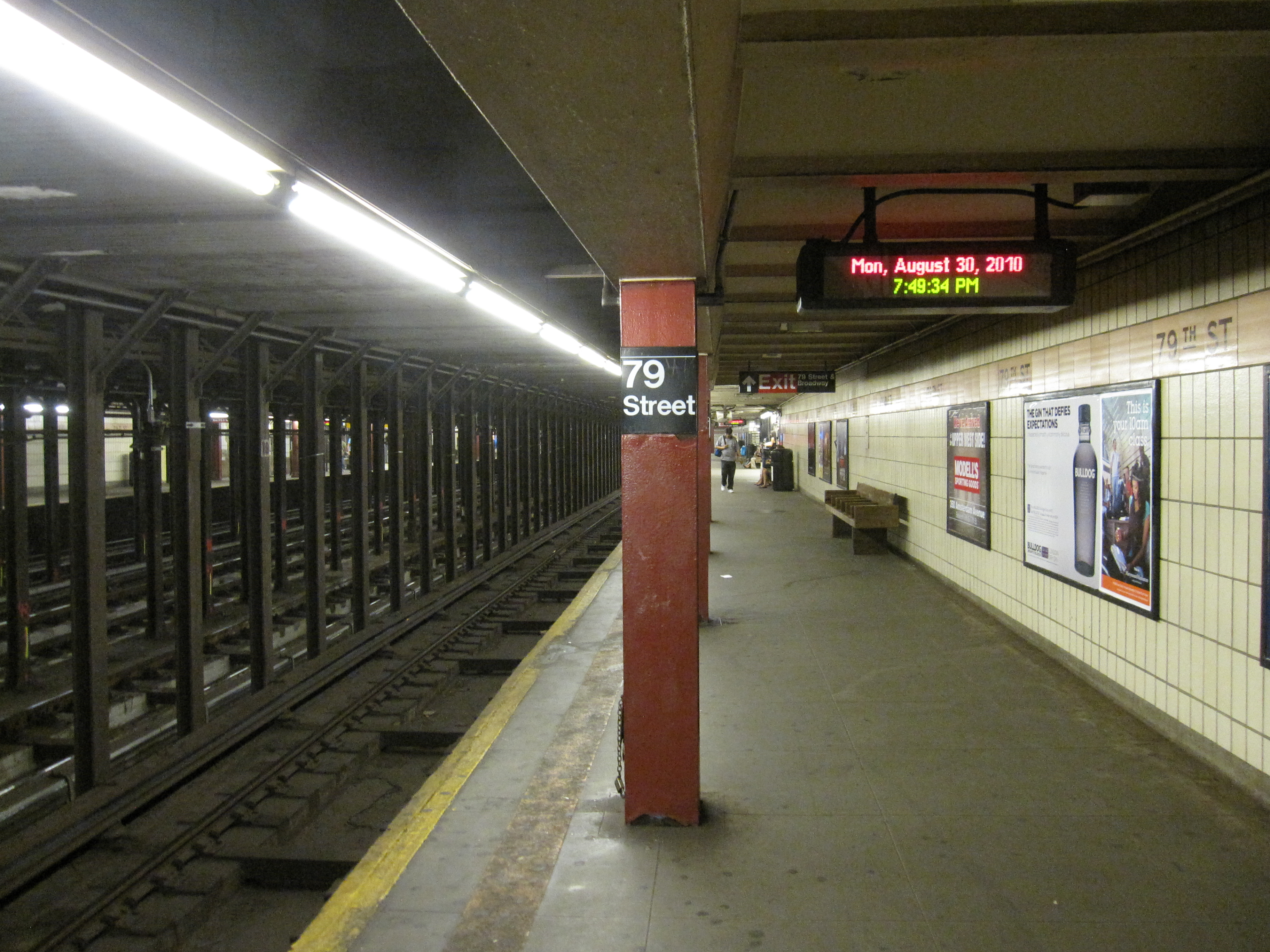 79th Street (IRT Broadway – Seventh Avenue Line)